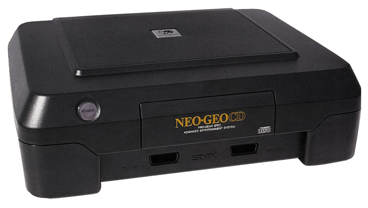 An original front-loading version of the Neo-Geo CD